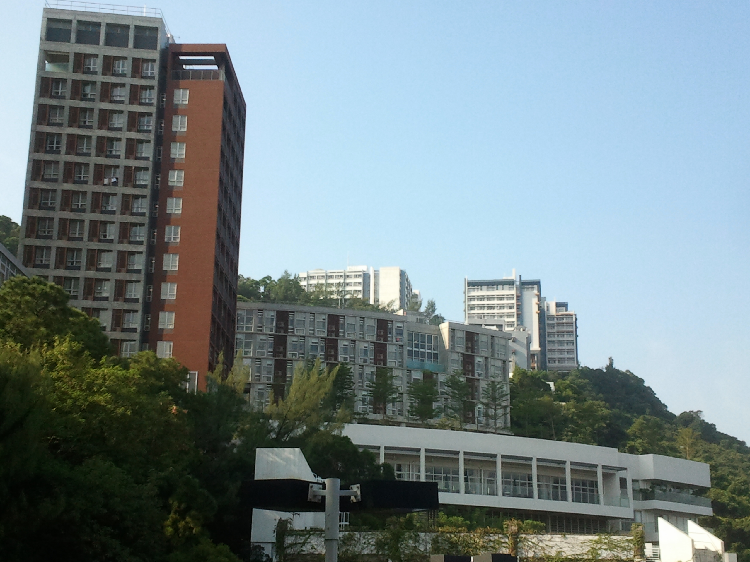 Morningside College overview